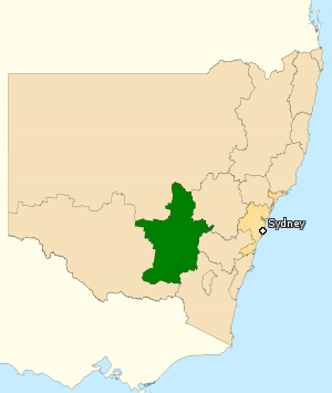 Incorporates or developed using Administrative Boundaries ©PSMA Australia Limited licensed by the Commonwealth of Australia under Creative Commons Attribution 4.0 International licence (CC BY 4.0). Derived from State and Territory Boundaries from the Australian Bureau of Statistics under Creative Commons Attribution 2.5 Australia license (CC BY 2.5 AU)